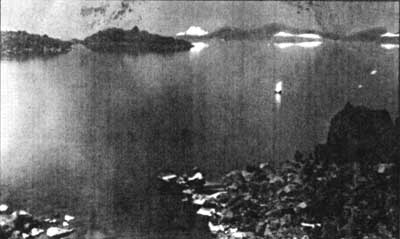 Silas Diller’s 1901 photo of the Old Man of the Lake – visible as a white blob to centre right